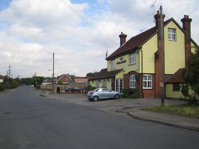 South Woodham Ferrers: The Whalebone. Traditional roadside pub on Old Wickford Road, which used to be the main road through the village, but is now by-passed and a no through road.